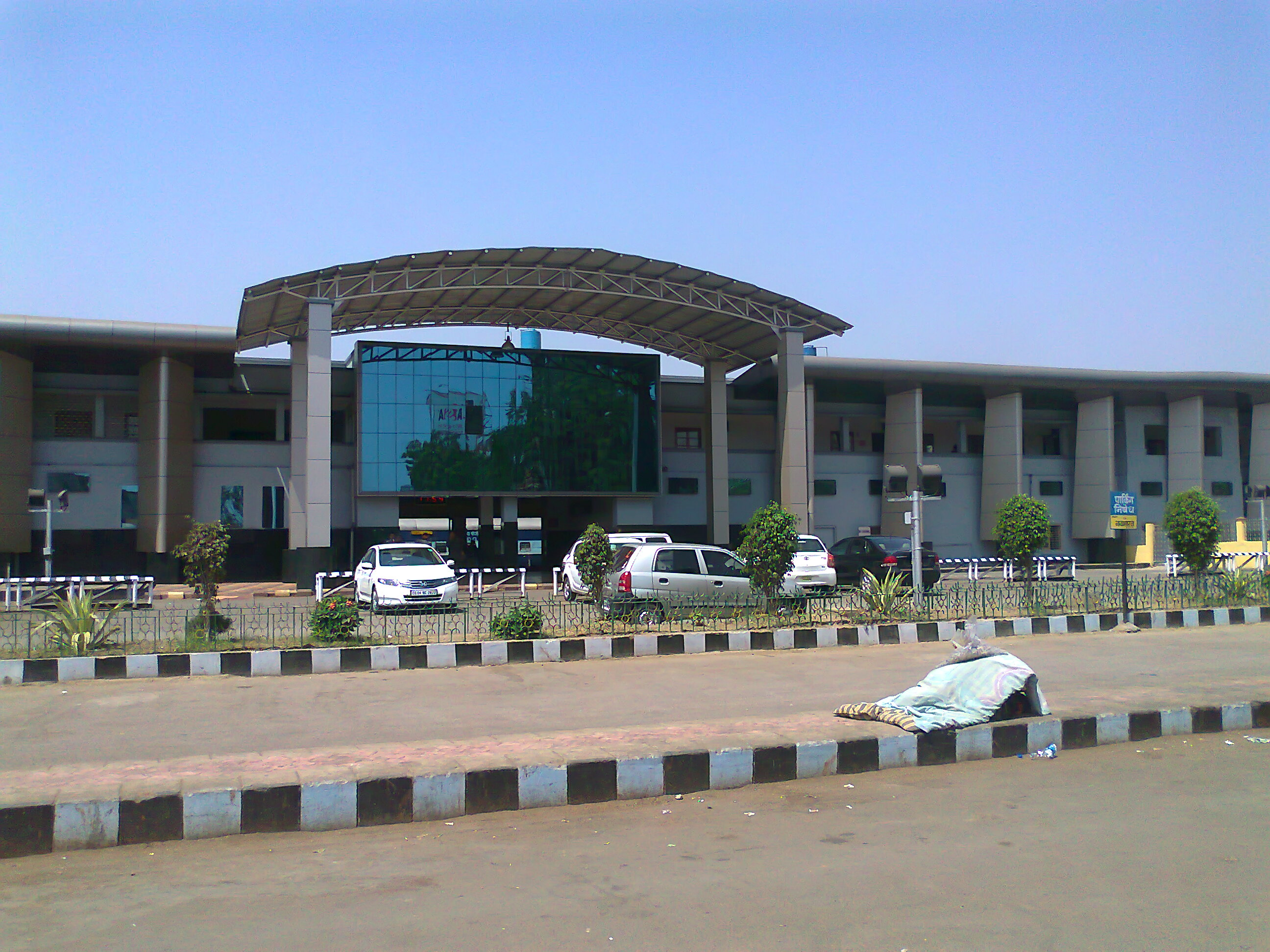 This is newly Constructed Raipur Railway Station entrance gate for VIP's. Located in the capital city Raipur.